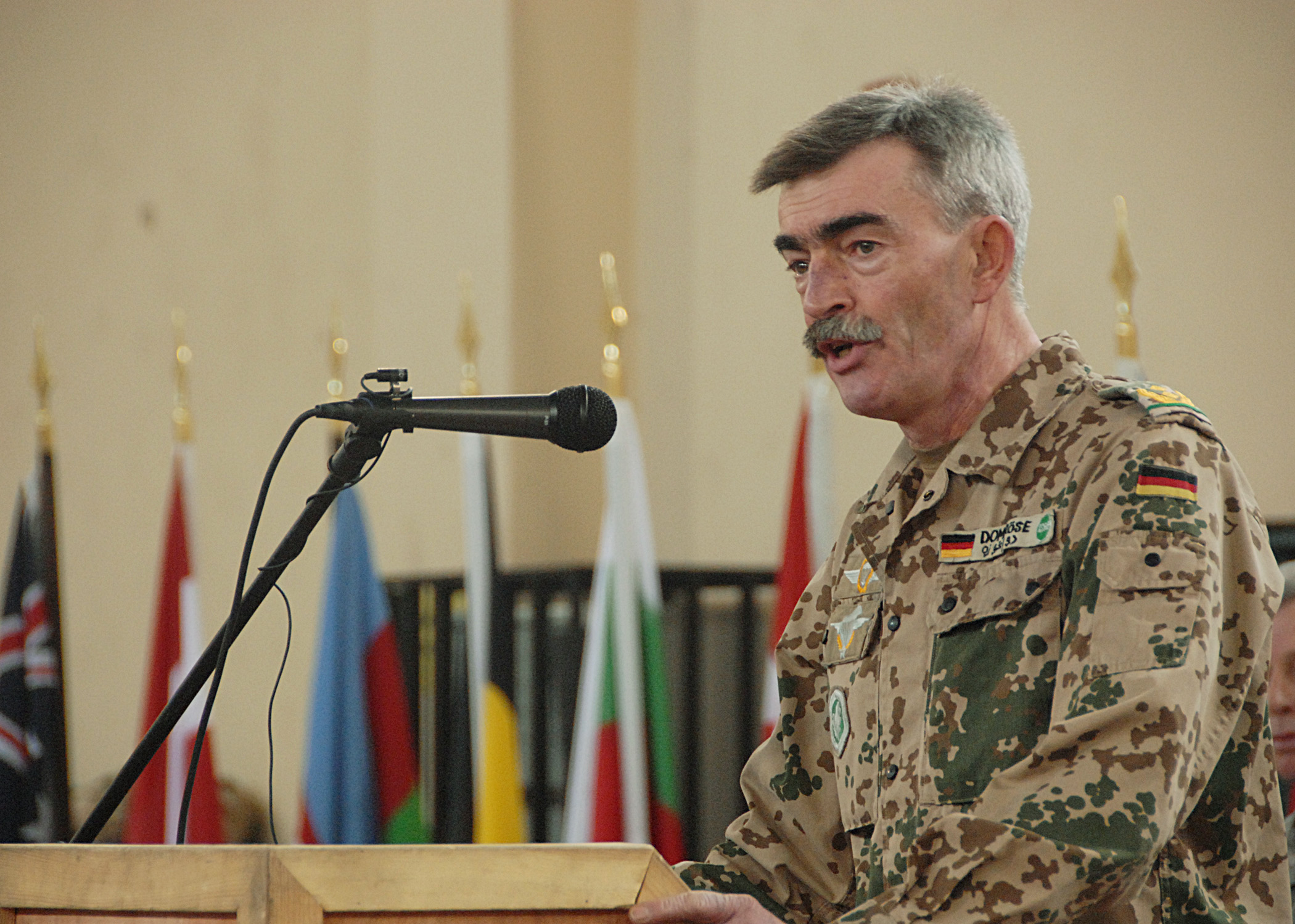 KABUL, Afghanistan--German Major General Hans-Lothar Domröse, outgoing Chief of Staff for International Security Assistance Force (ISAF) Headquarters, speaks at a farewell address during the Chief of Staff change of command ceremony held in the gymnasium of ISAF Headquarters on January 3, 2009. Domröse, who was relieved by Italian Major General Marco Bertolini, will soon move on to his next duty station as Commander General of Eurocorps in Strasbourg, France. ISAF Photo by U.S. Navy Petty Officer Aramis X. Ramirez (RELEASED)